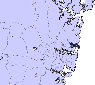 Locator Map Manly lga sydney.png Based on Image:Ku-ring-gai sydney.png by User:Randwicked.